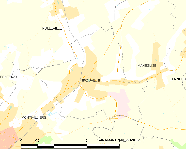 Map of French municipality Épouville